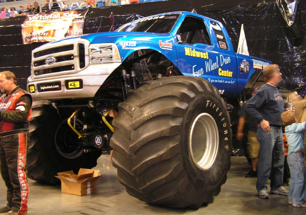 Bigfoot 14 at Chaifetz Arena in St. Louis. 10-16-2010